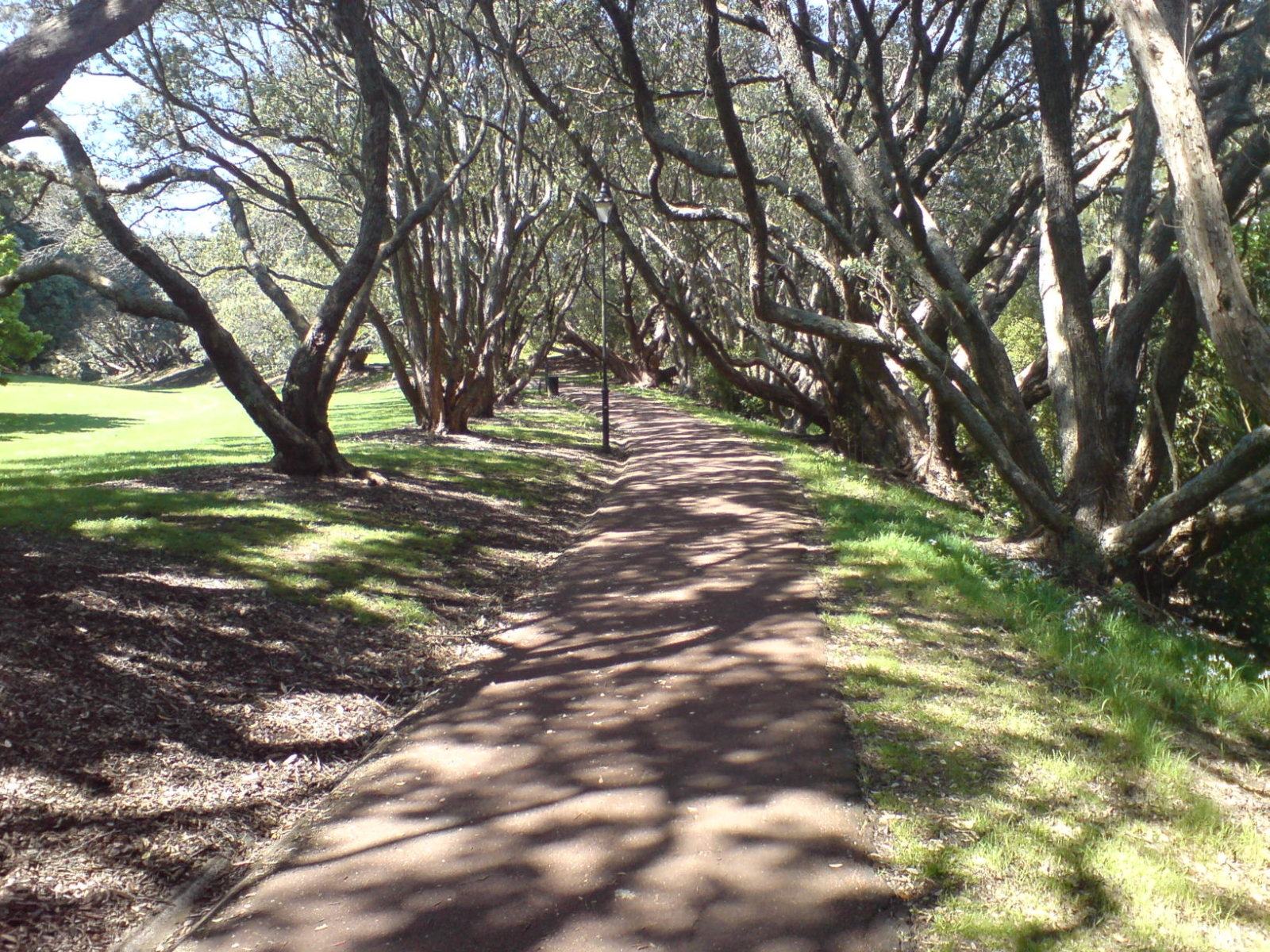 A walking path up from Grafton Gully to the Auckland Domain in Auckland, New Zealand. The coordinates are pretty approximate - correct walking path, but position on the path is more difficult to refine.